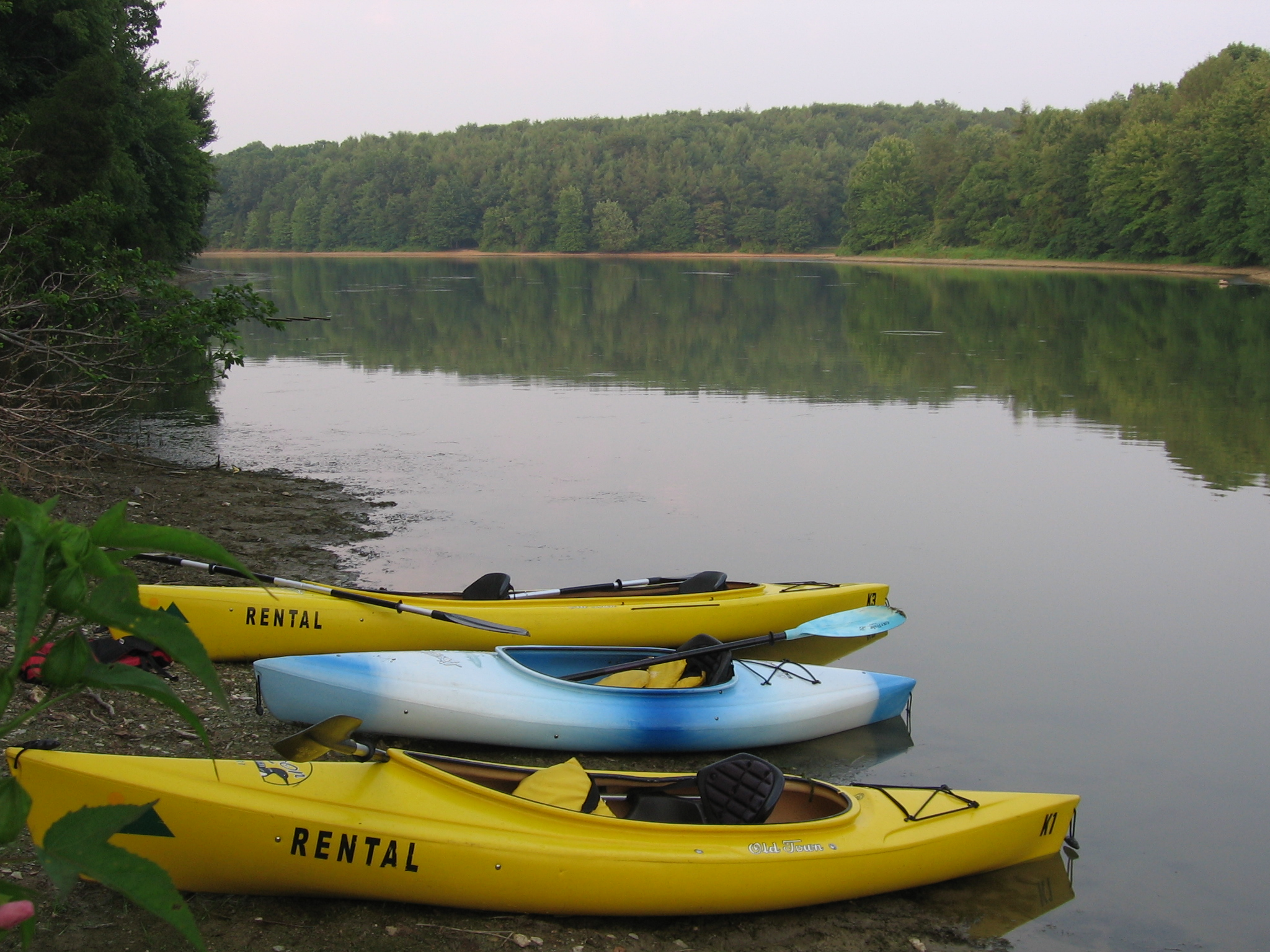 Kayaking on Codorus. I took this picture on our church kayak trip in Codorus state Park.